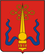 Kyzyl (Tuva), coat of arms (1974)